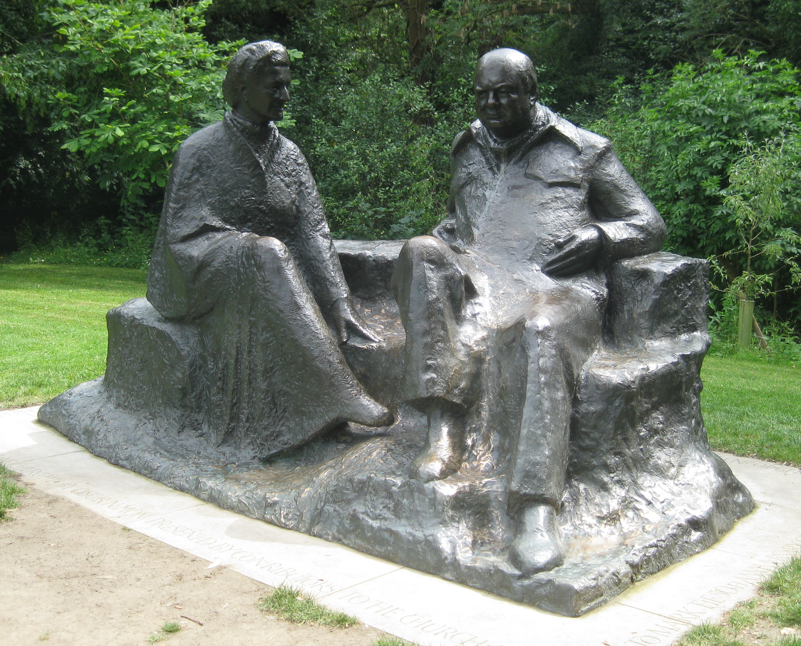 Statue of Winston and Clementine Churchill at Chartwell.